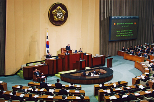 SEOUL. At a meeting with South Korean National Assembly deputies.